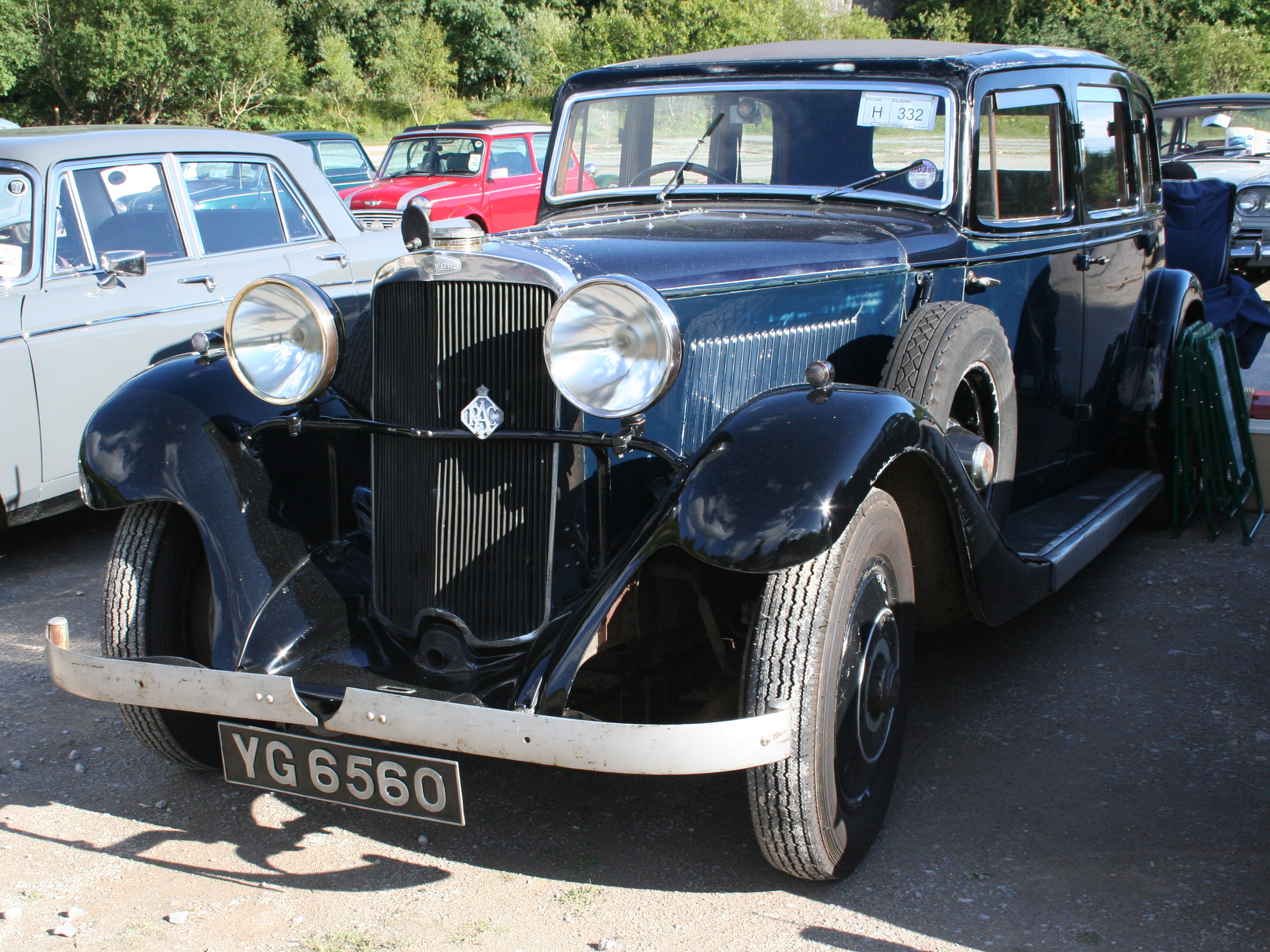 Sunbeam Twenty (DVLA) first registered 12 March 1934, 3310cc Crich Tramway Transport Extravaganza 28 June 2006